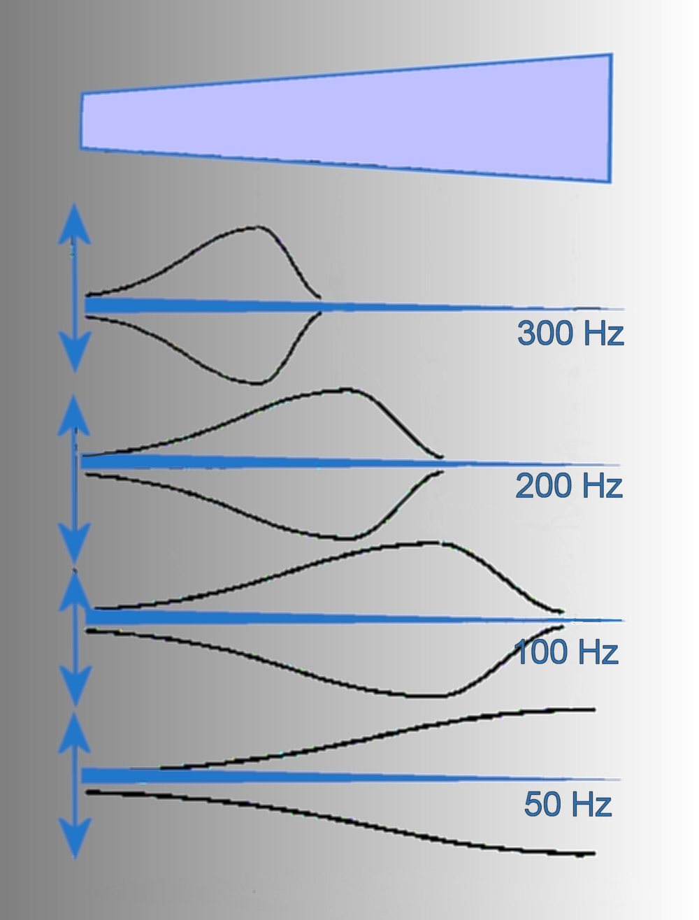 Schematic view of the vibrations of the basilar membrane. Shown is the envelope (amplitude) of the movement at various frequencies.